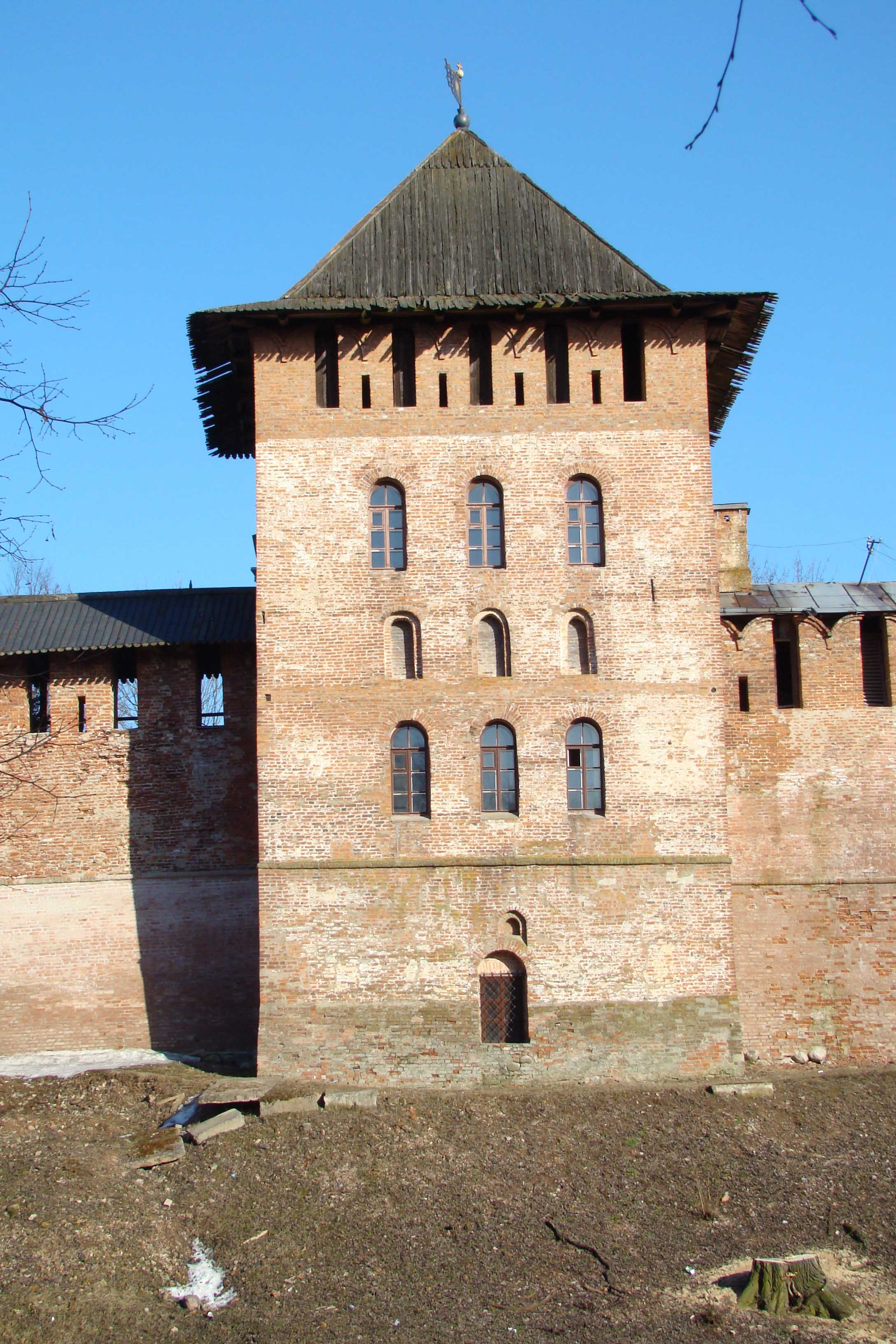 Zlatoustovskaya tower, Novgorod Detinets